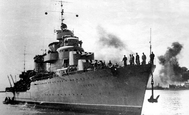 Soviet type 20 Leader of Destroyers «Tashkent»